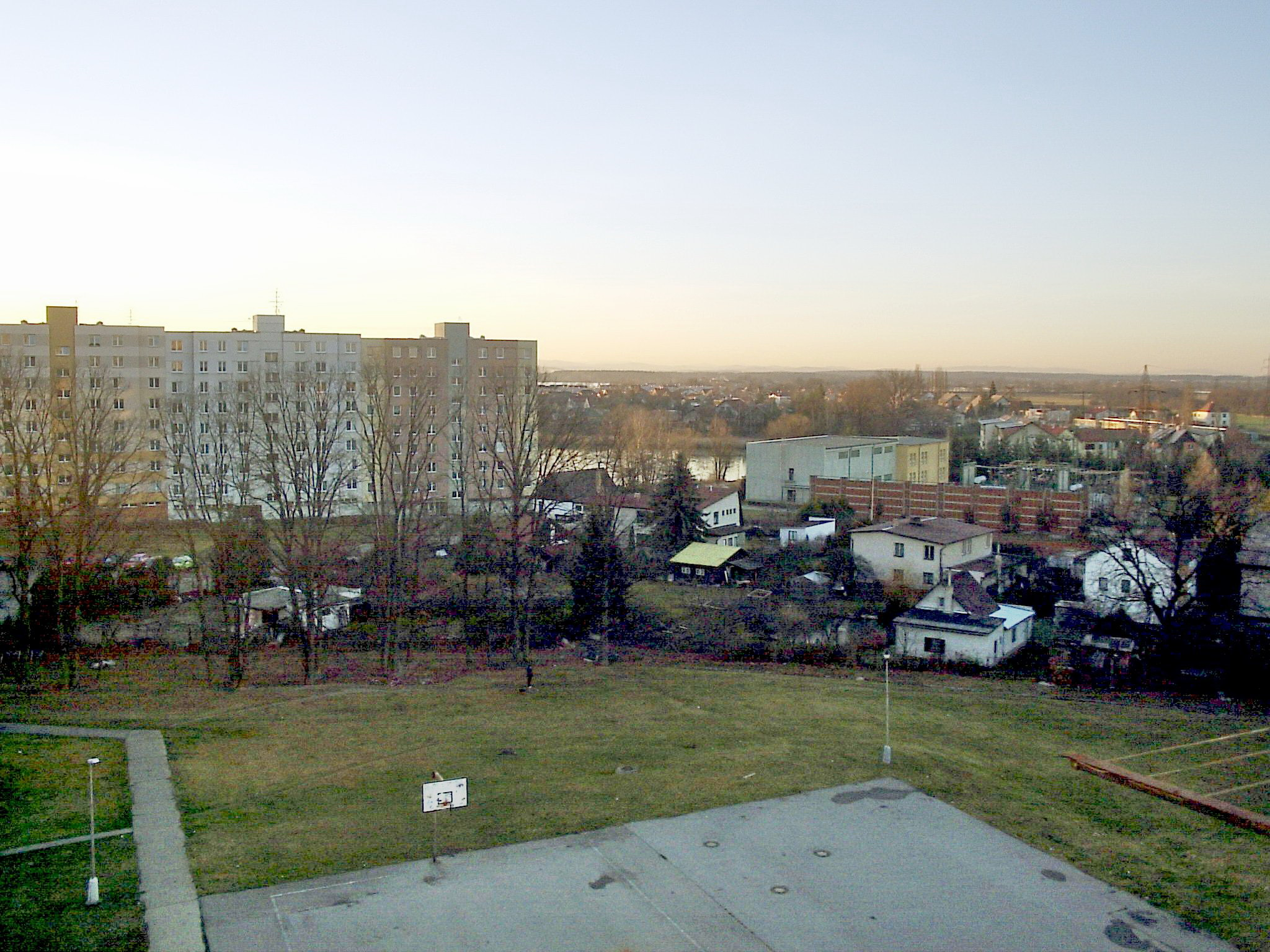 View of Zavadilka from Máj housing estate in Českých Budějovice, Czech Republic